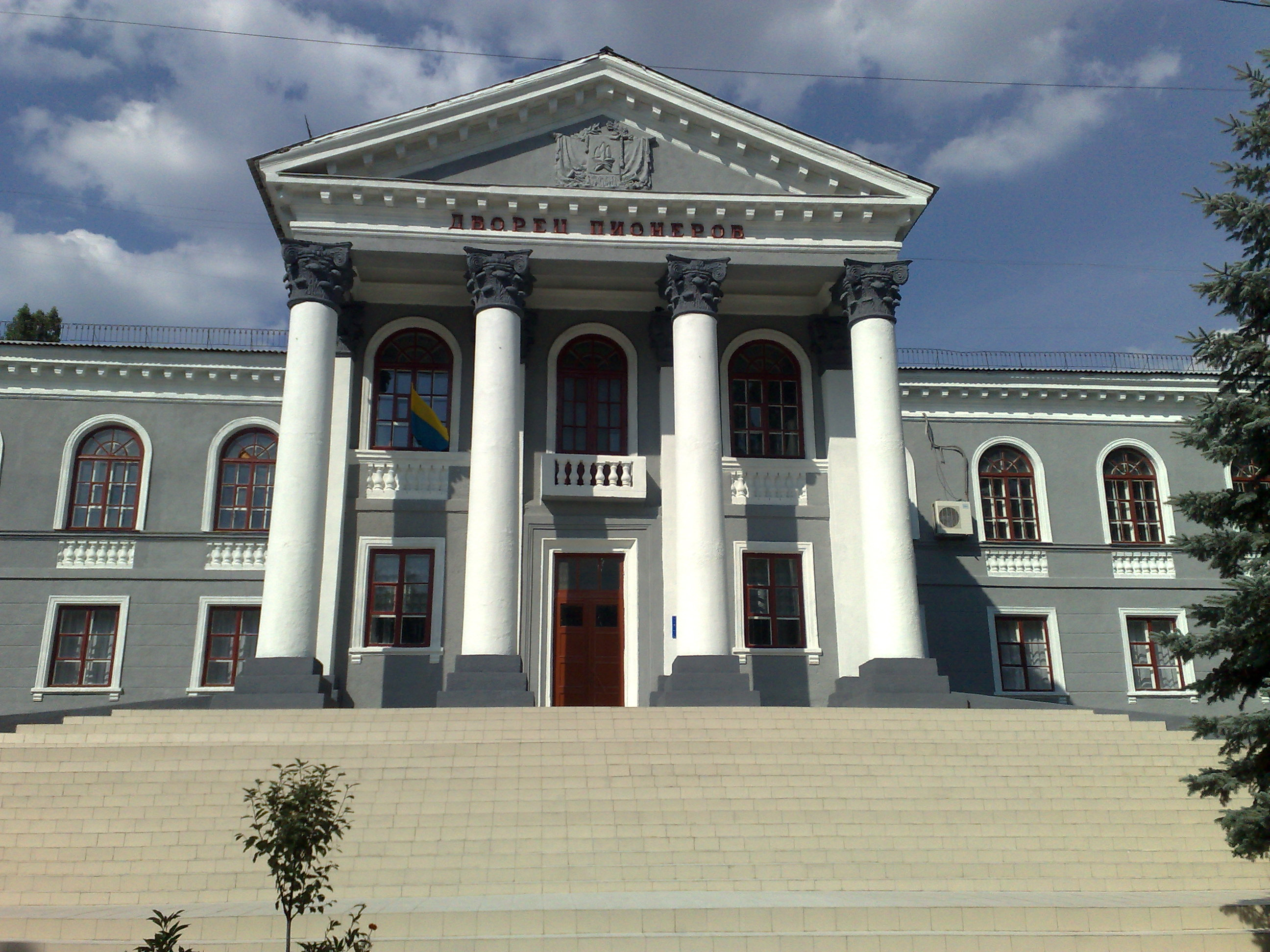 дк юность торез